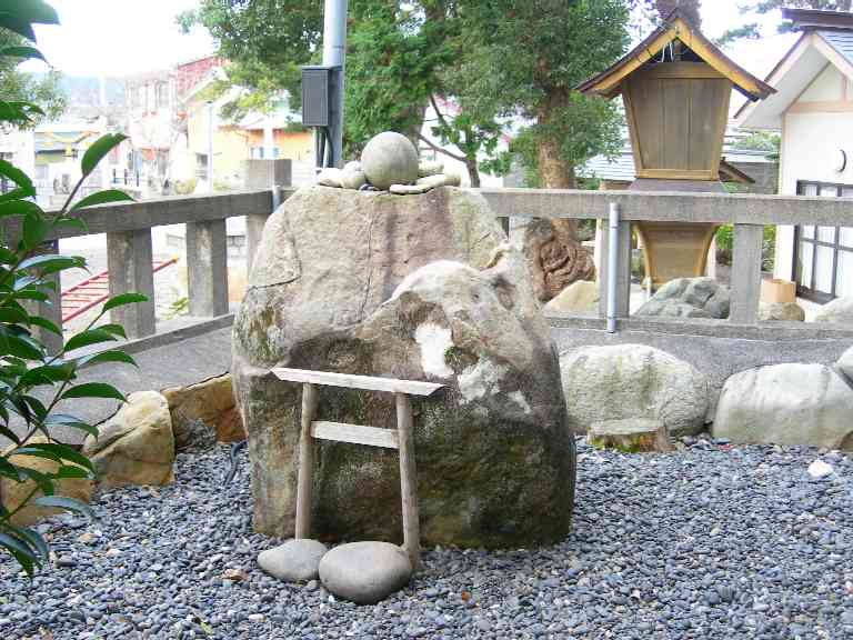 The horseshoe-shaped stone of Funakoshi-jinja at Daiou-Funakoshi, Shima city, Mie prefecture Japan.